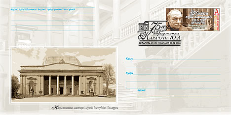 Commemorative envelope and stamp of Belarus: 75 years of Yury Karachyn.